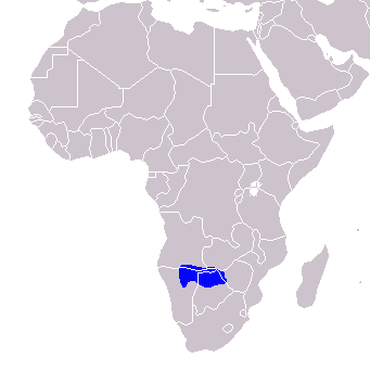 Tockus bradfieldi - Distribution